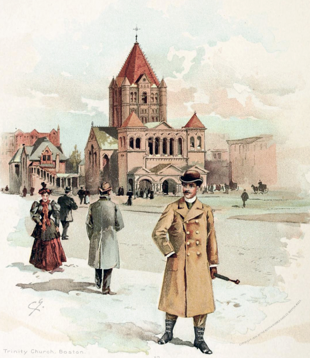 Idealized illustration of Copley Square in the late nineteenth century, prominently featuring H. H. Richardson's Trinity Church.